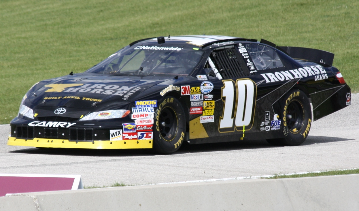 The NASCAR racecar for driver Tayler Malsam at the 2010 Bucyrus 200 at Road America.